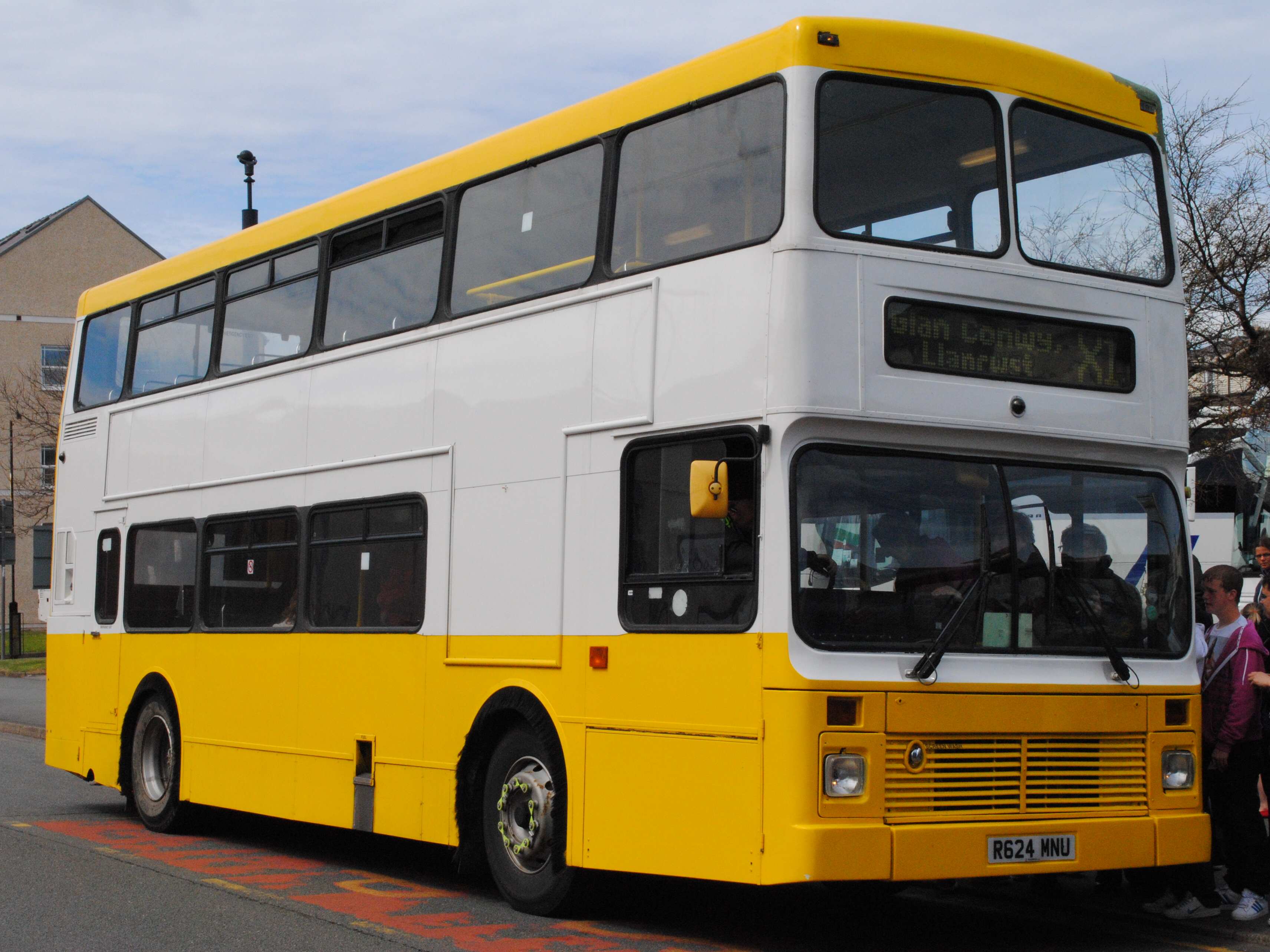 Volvo Olympian Northern Counties Palatine. new to Arriva Fox County 4624